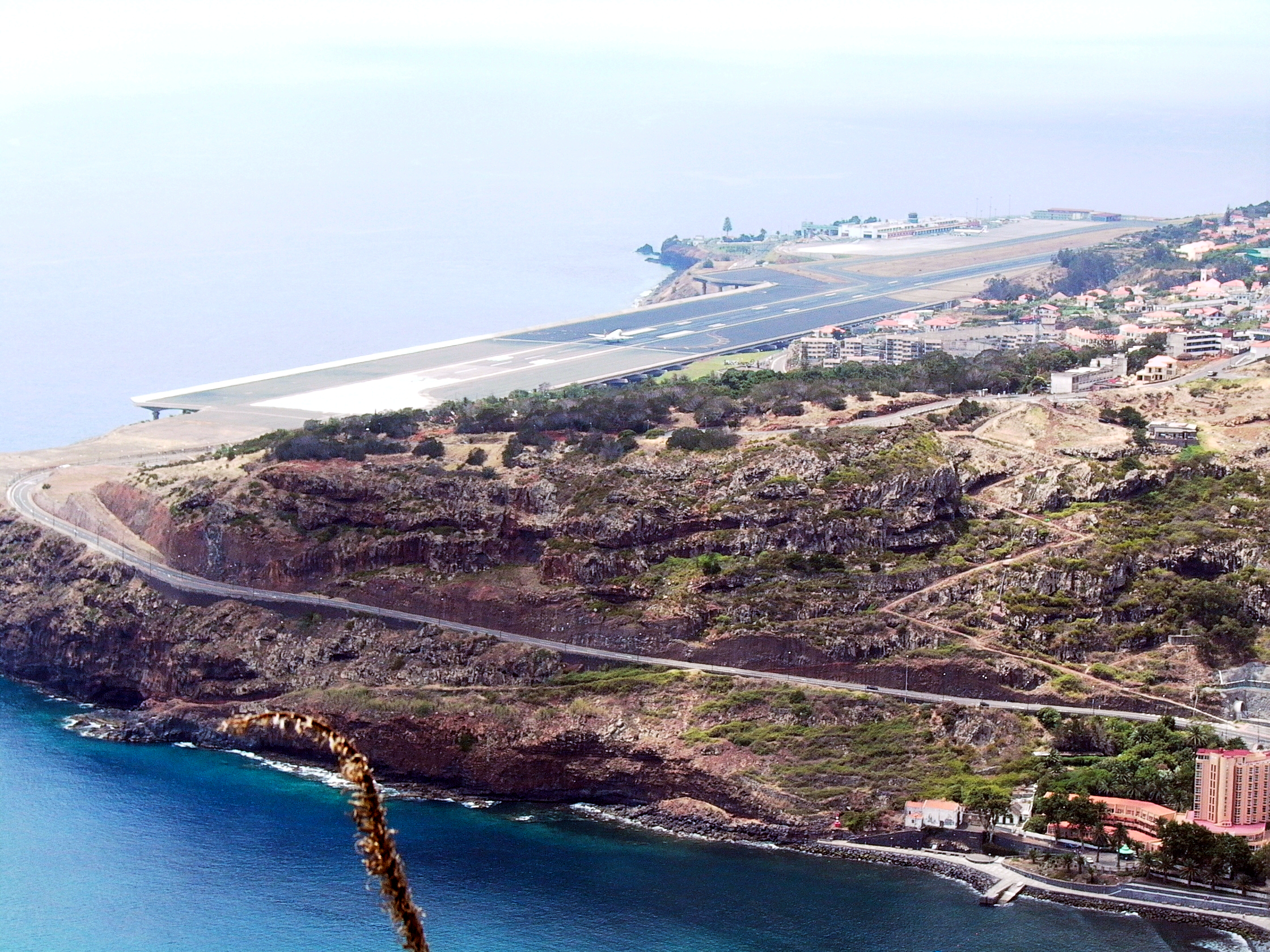 Madeira Airport – view on the airport from the Pico do Facho